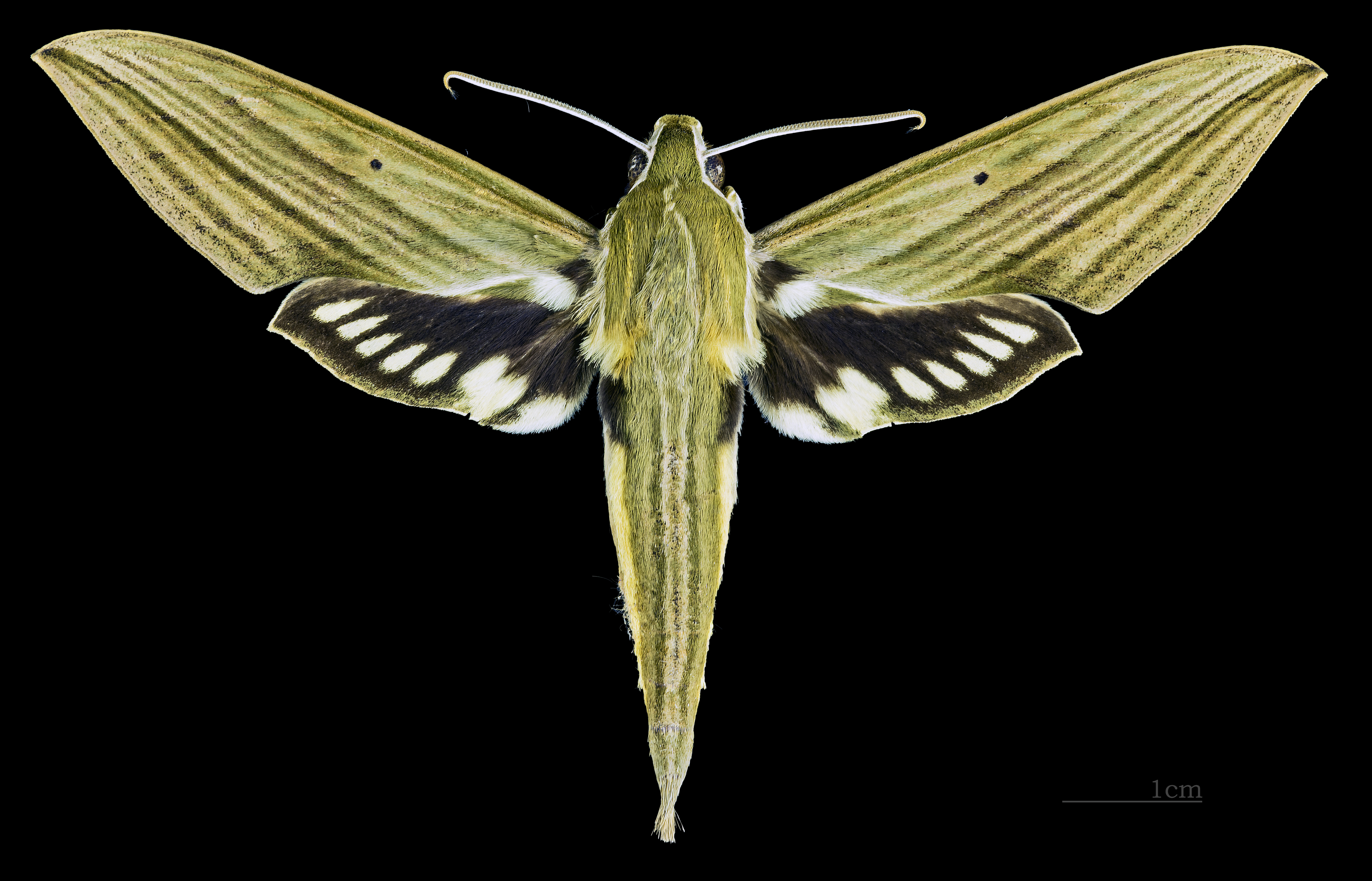 Xylophanes crotonis - Dorsal side